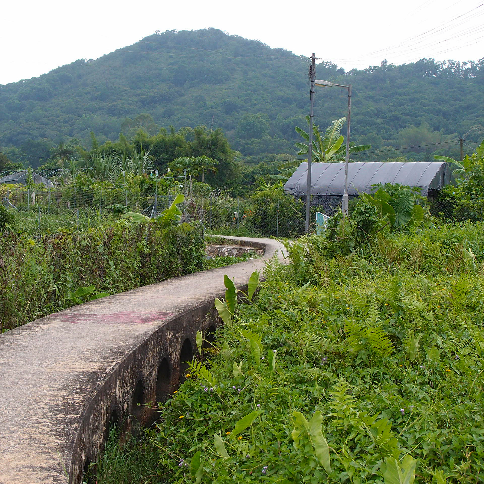 鶴藪村內的農地